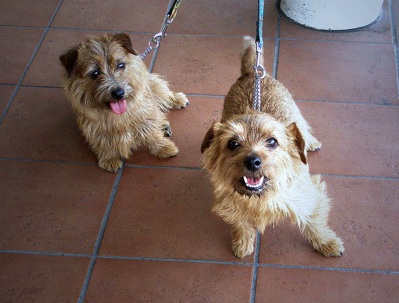 Norfolk terrier couple.